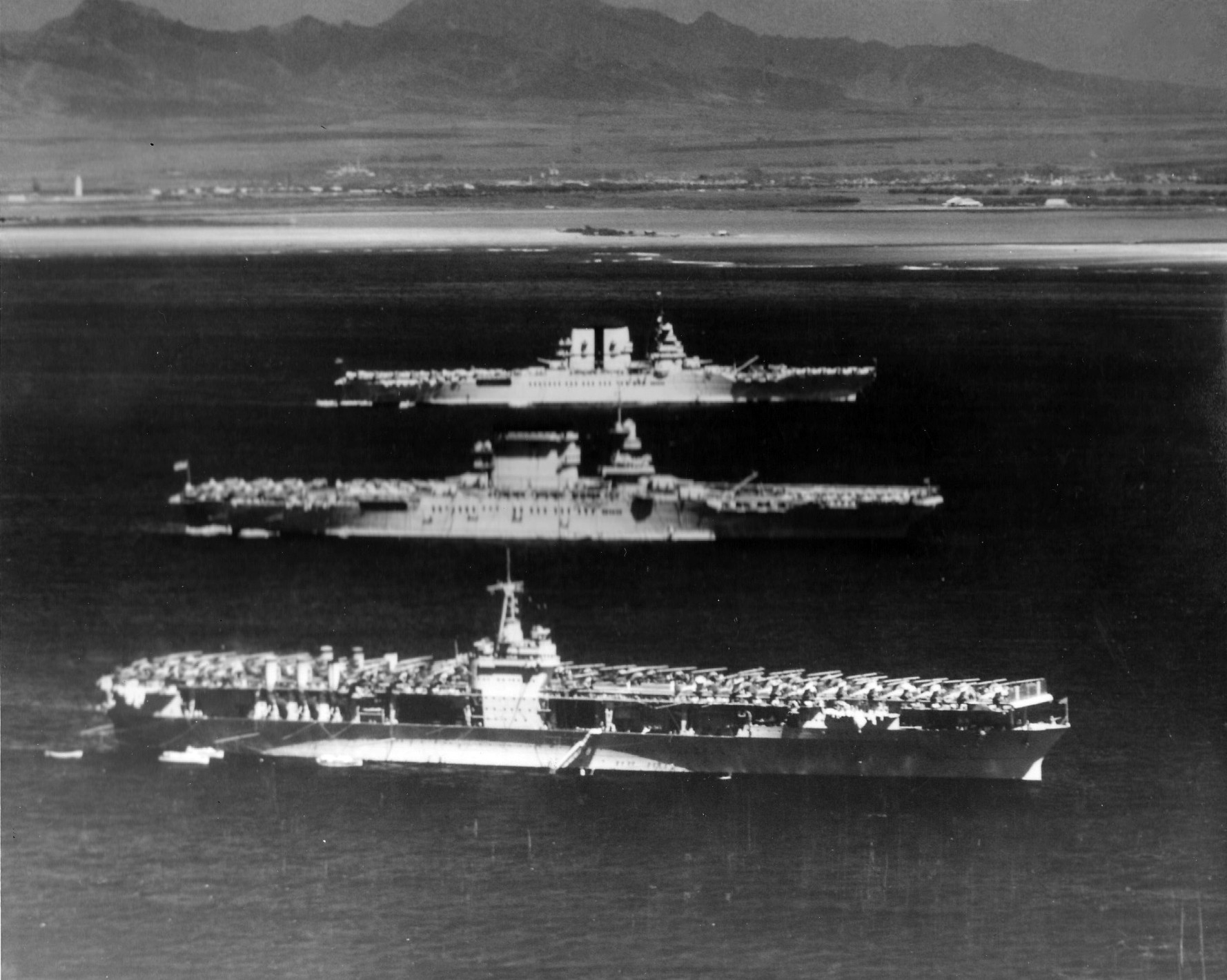 The U.S. Navy aircraft carriers USS Ranger (CV-4) (bottom), USS Lexington (CV-2) (middle), and USS Saratoga (CV-3) (top) pictured at anchor off Honululu, Hawaii (USA), on 8 April 1936.